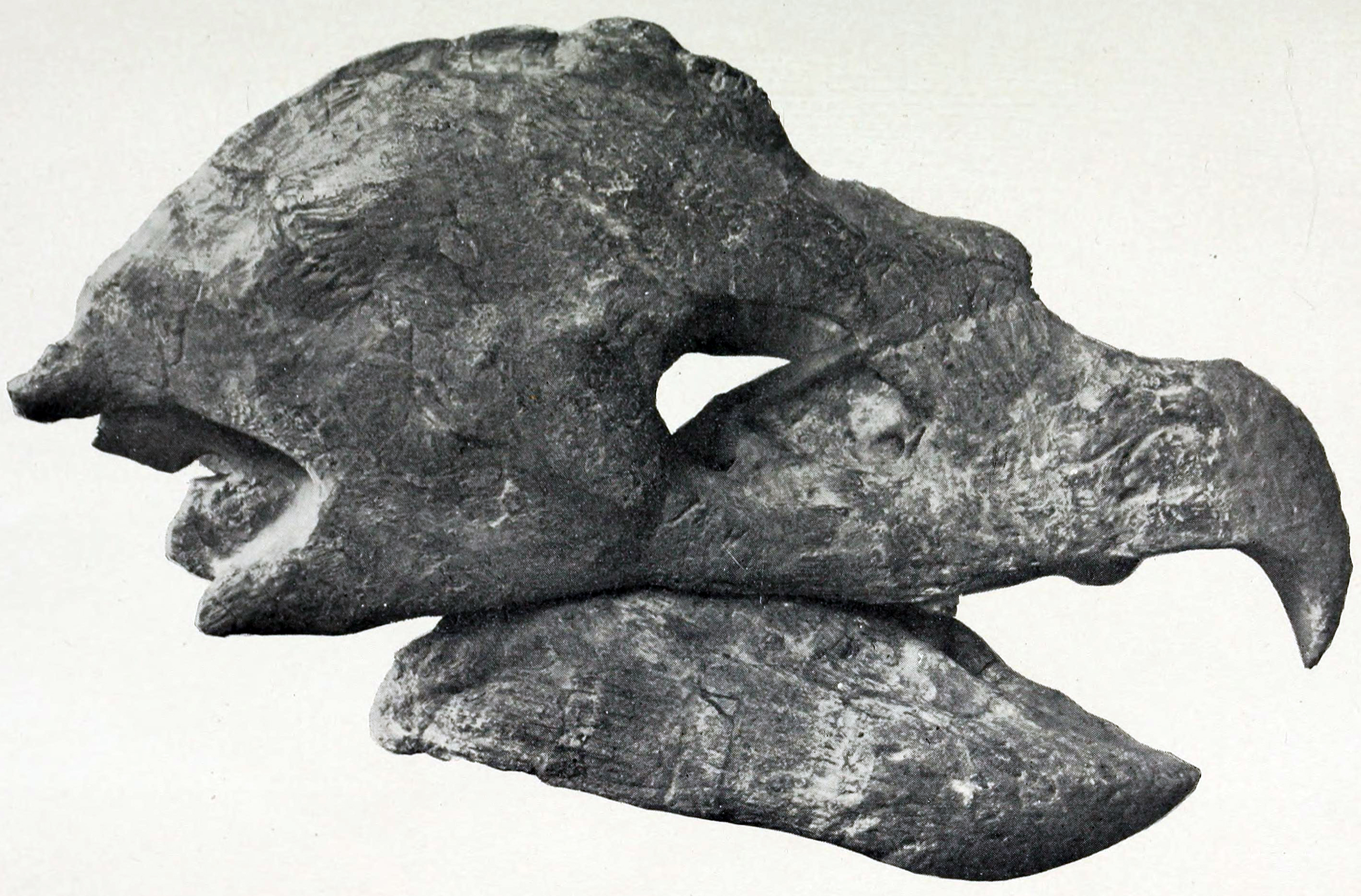 Title: The American journal of science Year: 1880 (1880s) Authors: Subjects: Science Publisher: New Haven : J. D. & E. S. Dana Text Appearing Before Image: Am. Jour. Sci., Vol. IX, 1900. Plate Text Appearing After Image: '